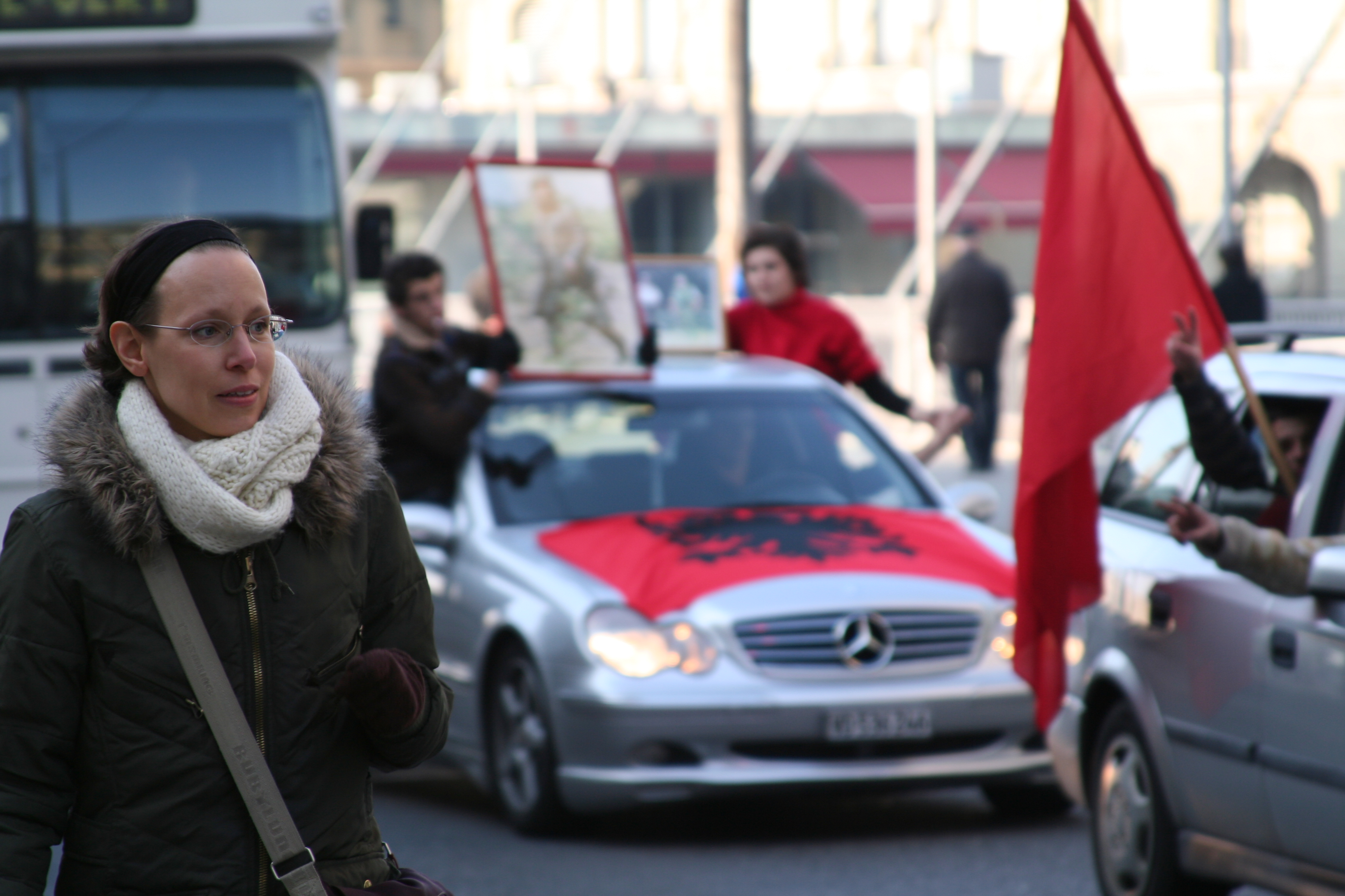 Kososvar's celebrating the declaration of independence in Switzerland